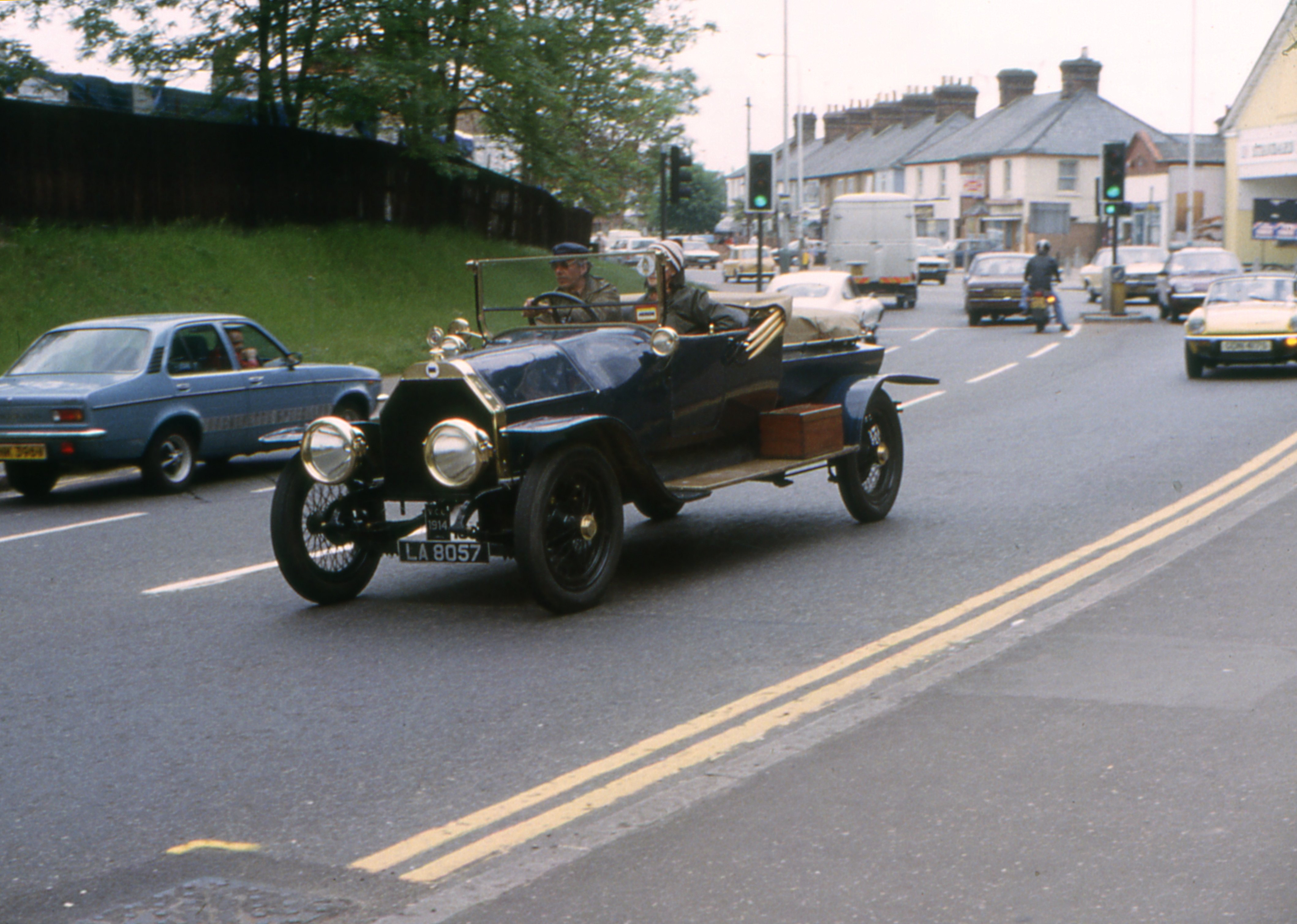 A 1914 Lancia captured at Micklefield High Wycombe. Camera: Olympus Pen F Half Frame SLR.